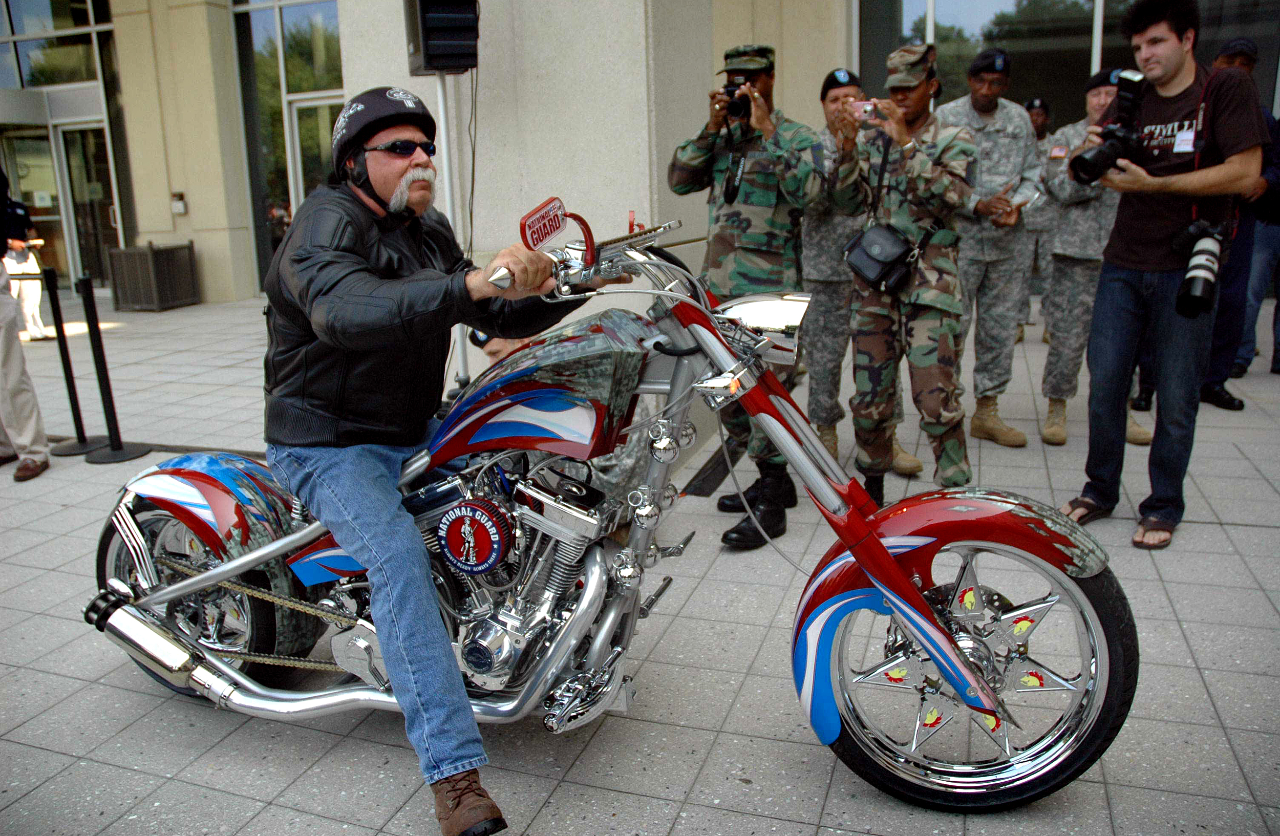 Paul Teutul Sr. of Orange County Choppers and the "American Chopper" television program rides the "Patriot Chopper," a motorcycle designed by U.S. troops, Jan 15, 2008. Episodes of "American Chopper" airing on The Learning Channel, Jan. 17 and 24 will feature the first of three bikes to be built by Orange County Choppers for the National Guard.